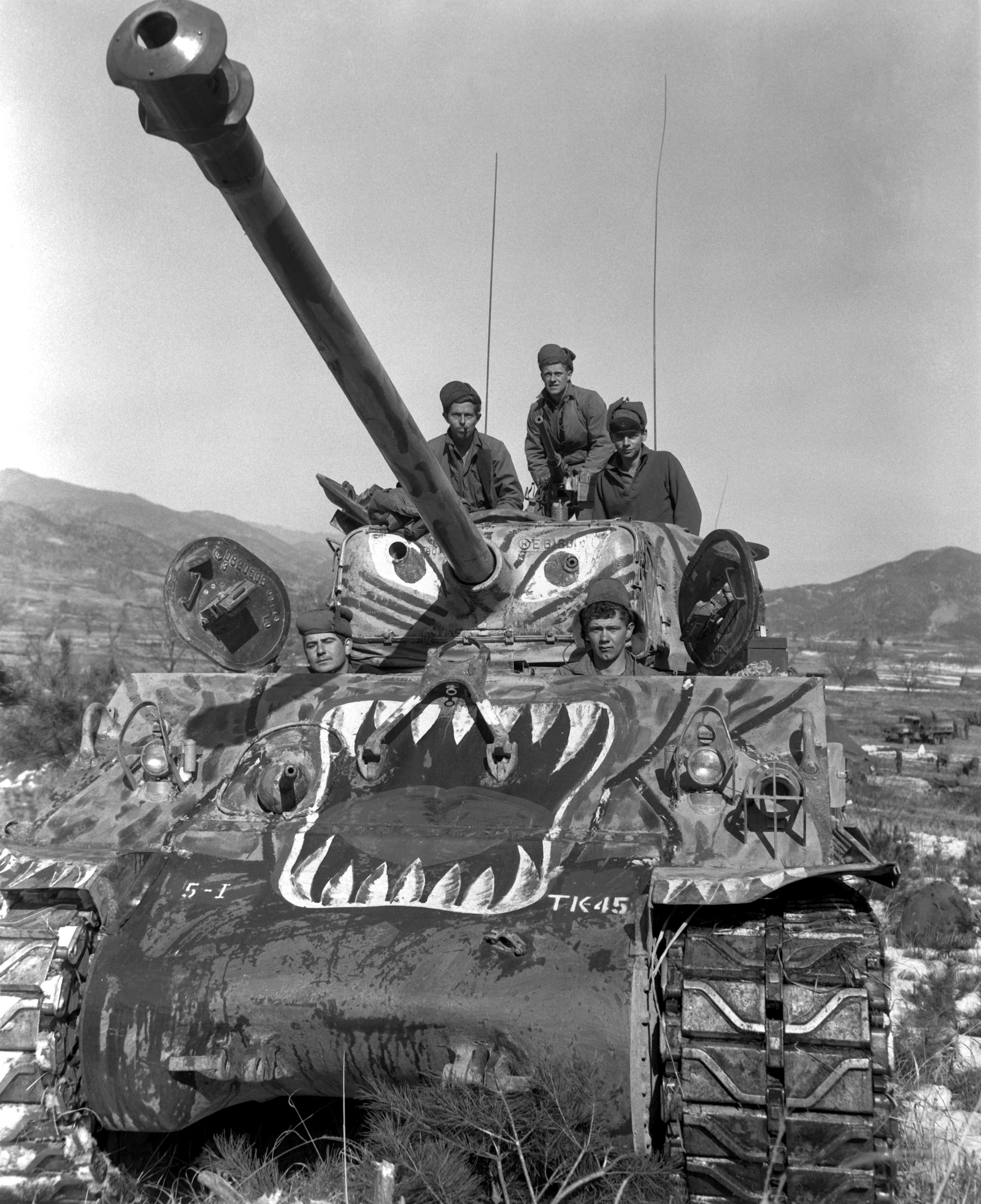 L-R: Cpl John T. Clark (union, SC); Cpl James E. Kishbough (Nescopeck, PA); Sgt Frank C. Allen (Etiwanda, CA); Sgt Theodore R. Liberty (Bushton, MA); and Cpl William J. Bohmback (Boston, MA); prepare to advance along the Han River area, Korea, in their M-4 Tiger Tank, during offensive launched by the 5th Rct against the enemy forces in that area